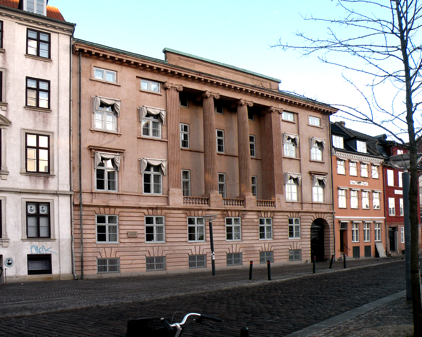 Ved Stranden 14 in Copenhagen, the home of politician and businessman David Baruch Adler and the birth place of Niels Bohr. Architect Johan Martin Quist (1755–1818)